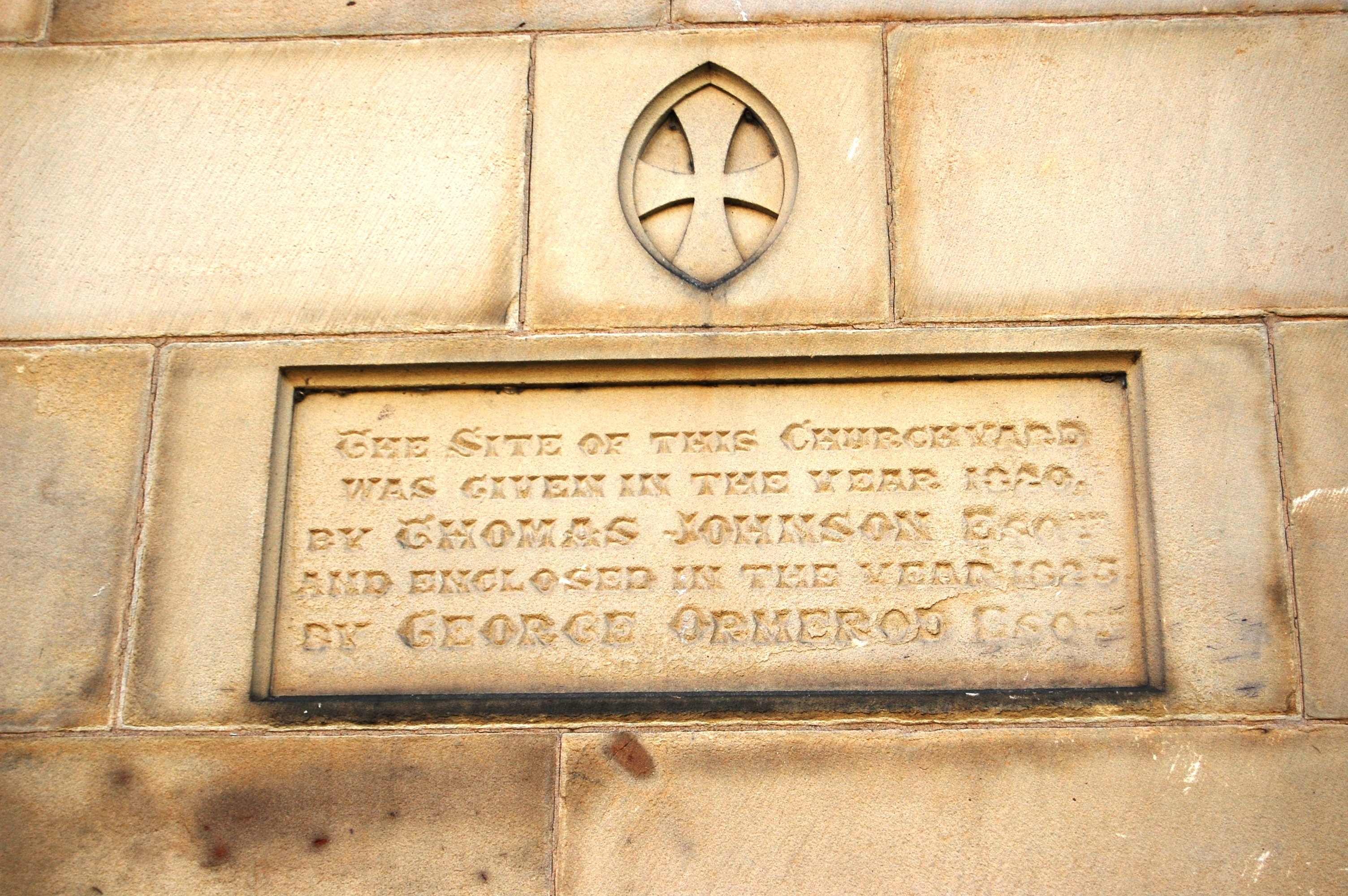 A plaque on a church in Tyldesley, Greater Manchester, England